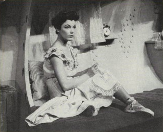 Judy Tyler as Suzy in Pipe Dream in the eponymous pipe.